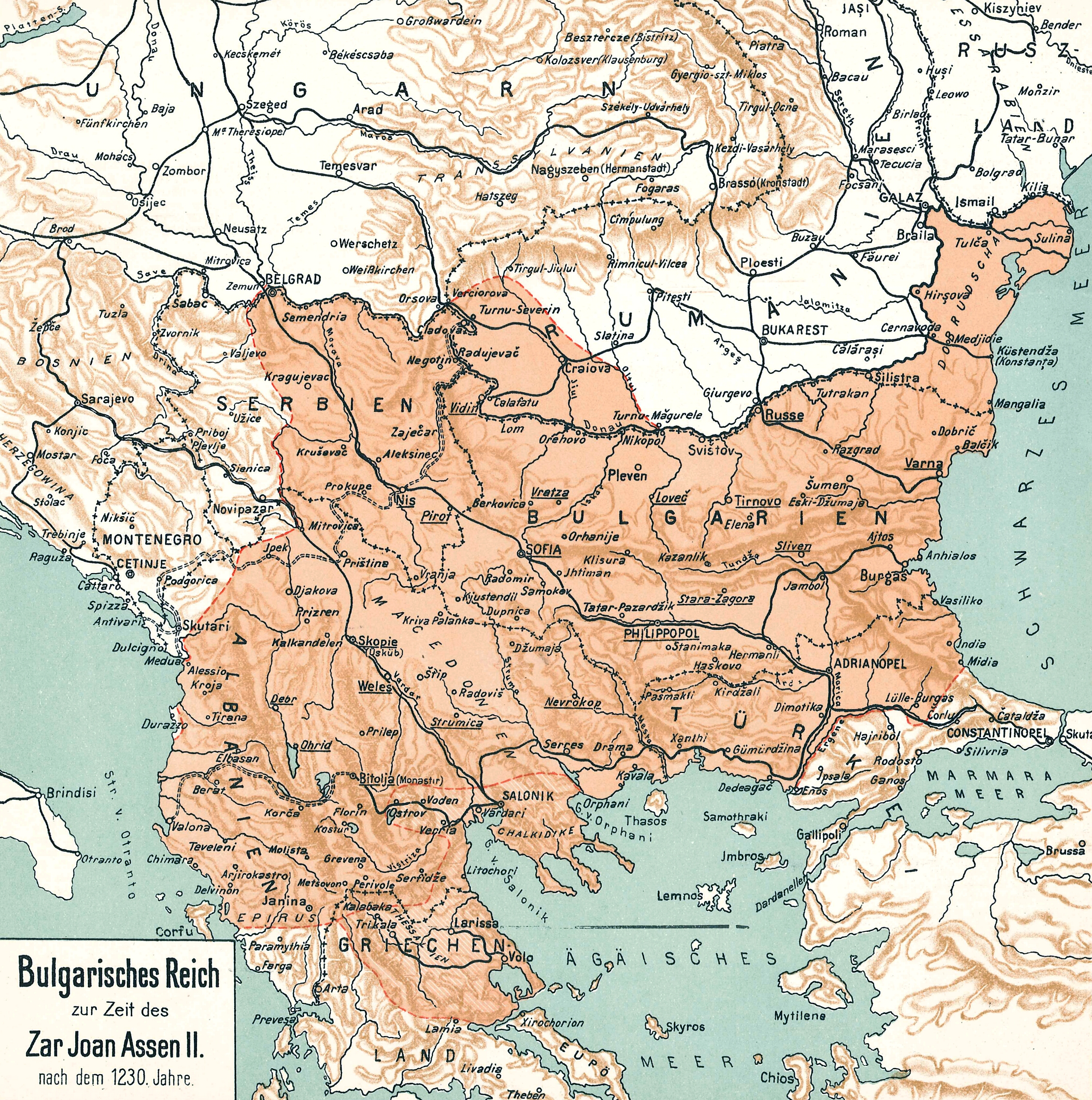 Bulgaria under Ivan Asen II. a map in Dimitar Rozoff: The Bulgariens in their historical, ethnographical and political frontiers, Berlin, 1917.